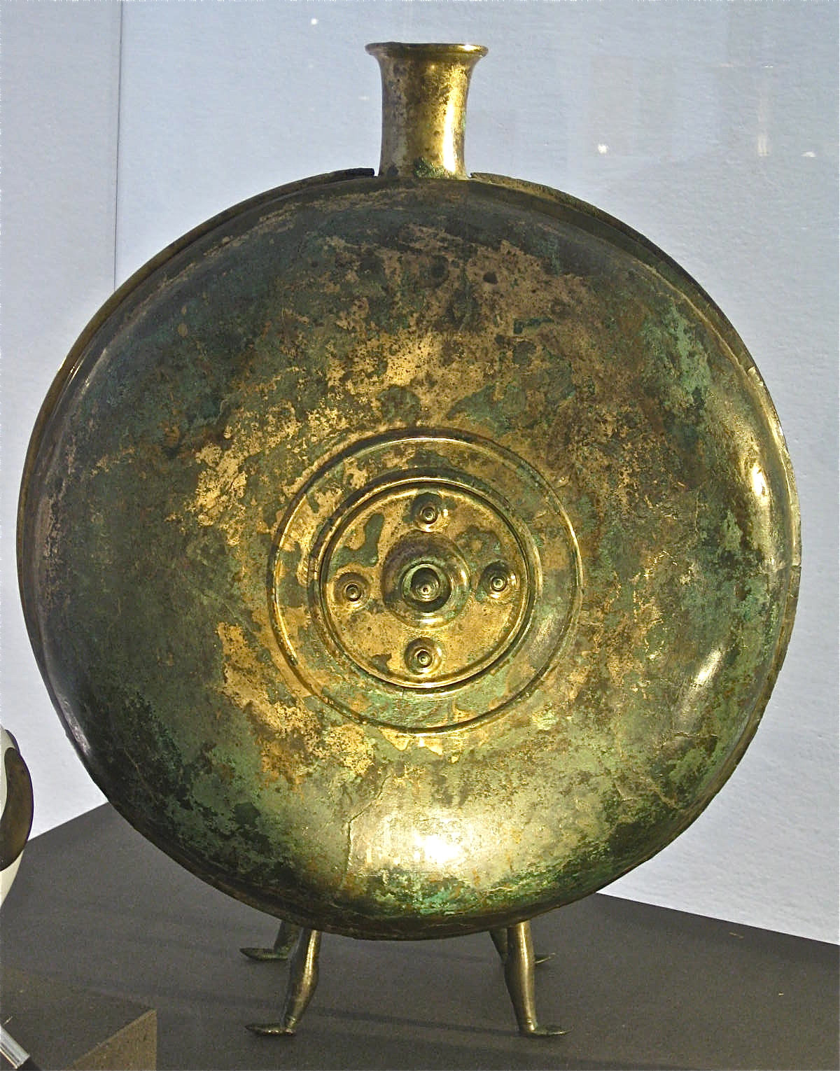 Keltenmuseum, Hallein. Finds from the Salt Mines at Dürrnberg Fürstengrab 44 ( 4th century BC ), from "Grave of a prince" 44 at Moserstein. Bronze "Pilgrim' flask